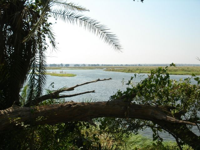 view from Rundu, Namibia onto the Okavango River, near the Kavango River Lodge. On the other side of the river is Angola.